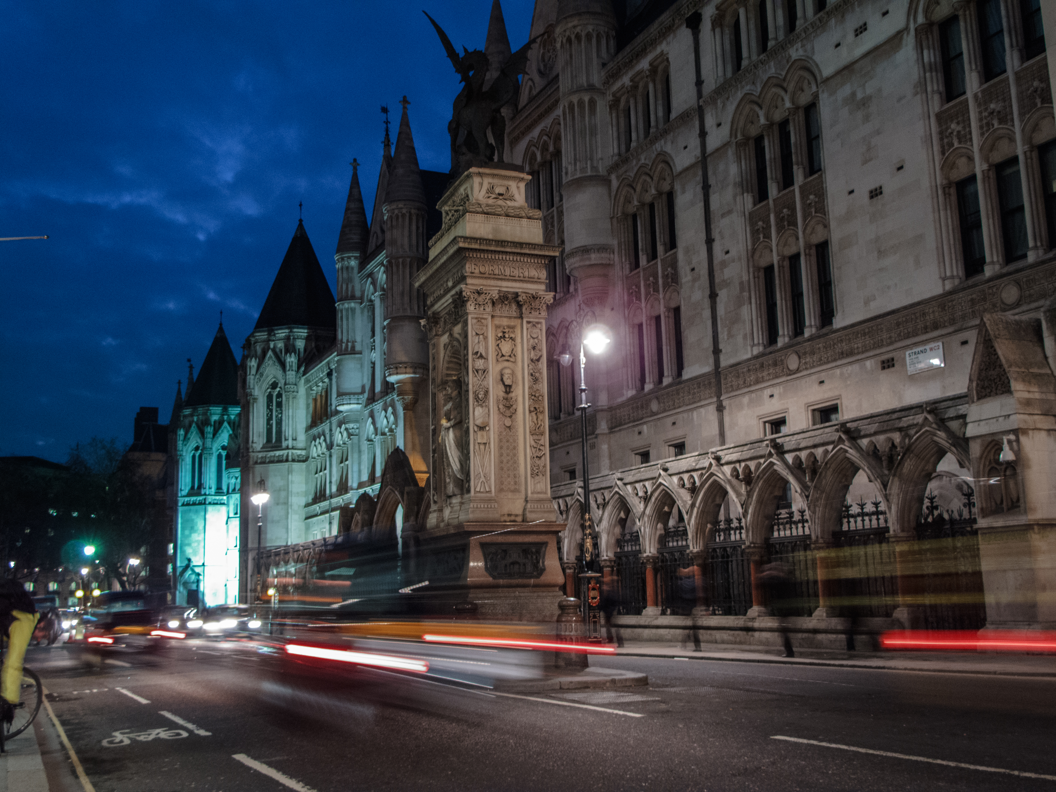 Royal Courts of Justice